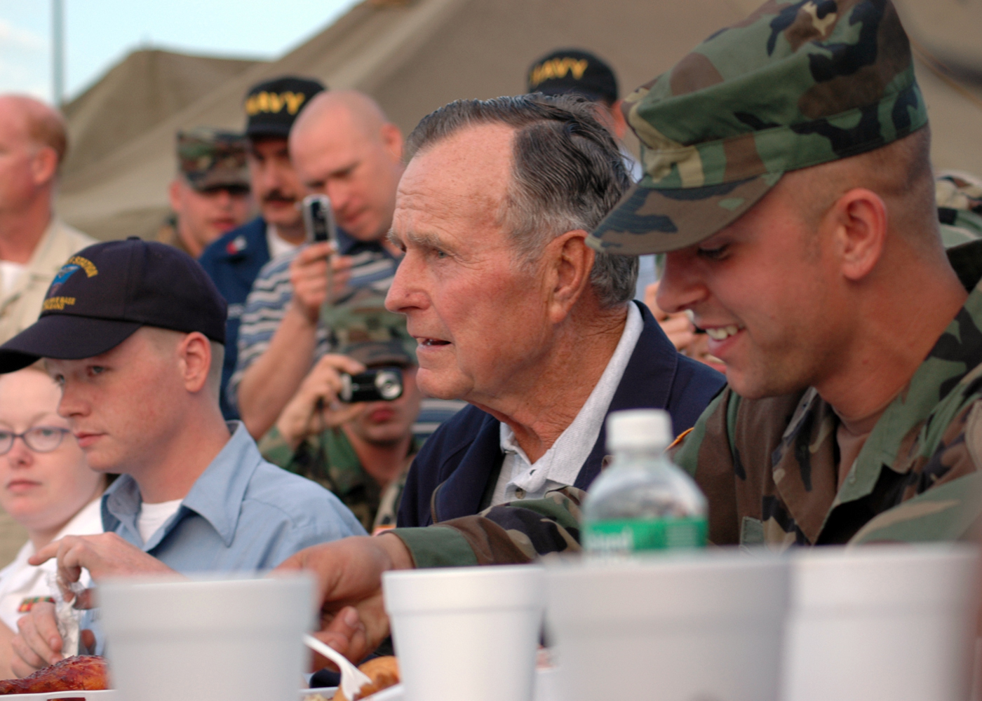 New Orleans (Oct. 8, 2005) - After arriving on board Naval Air Station Joint Reserve Base (NAS JRB), New Orleans, former President George H. Bush sits down to eat with military personnel. Bush is visiting NAS JRB, New Orleans personnel before receiving briefs on the status of Joint Task Force Katrina relief efforts. The Navy's involvement in humanitarian assistance operations are led by the Federal Emergency Management Agency (FEMA), in conjunction with the Department of Defense. U.S. Navy photo by Photographer's Mate 2nd Class Dawn C. Morrison (RELEASED)